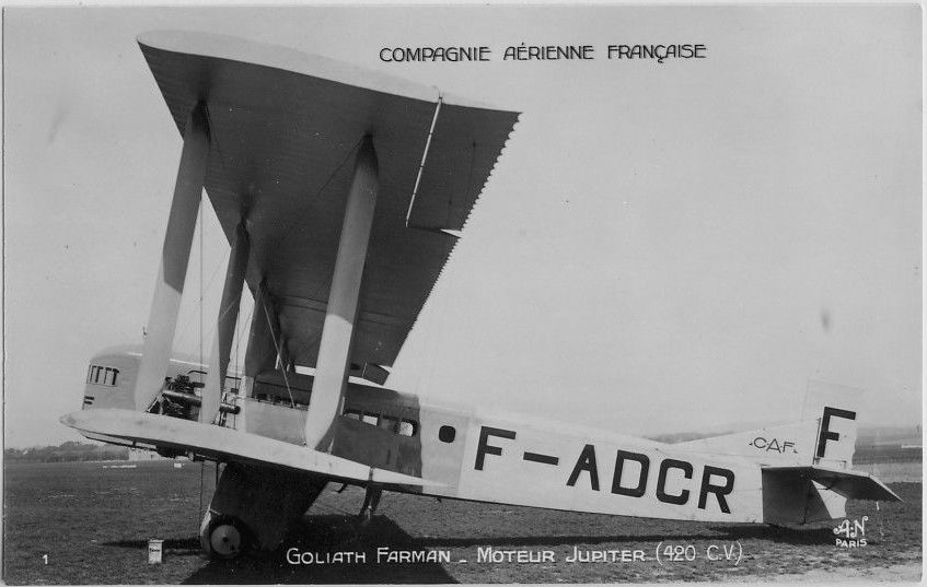 Compagnie Aérienne Française Farman F.60 Goliath airliner F-ADCR, equipped with two 420 hp Jupiter radial engines. (This aircraft was registered on 31 August 1921 and apparently retired in April 1930.)